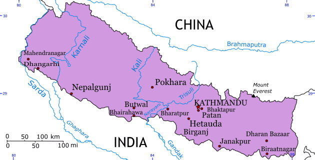 Map of Nepal, drawn by me =Nichalp «Talk»=, based on the CIA map.